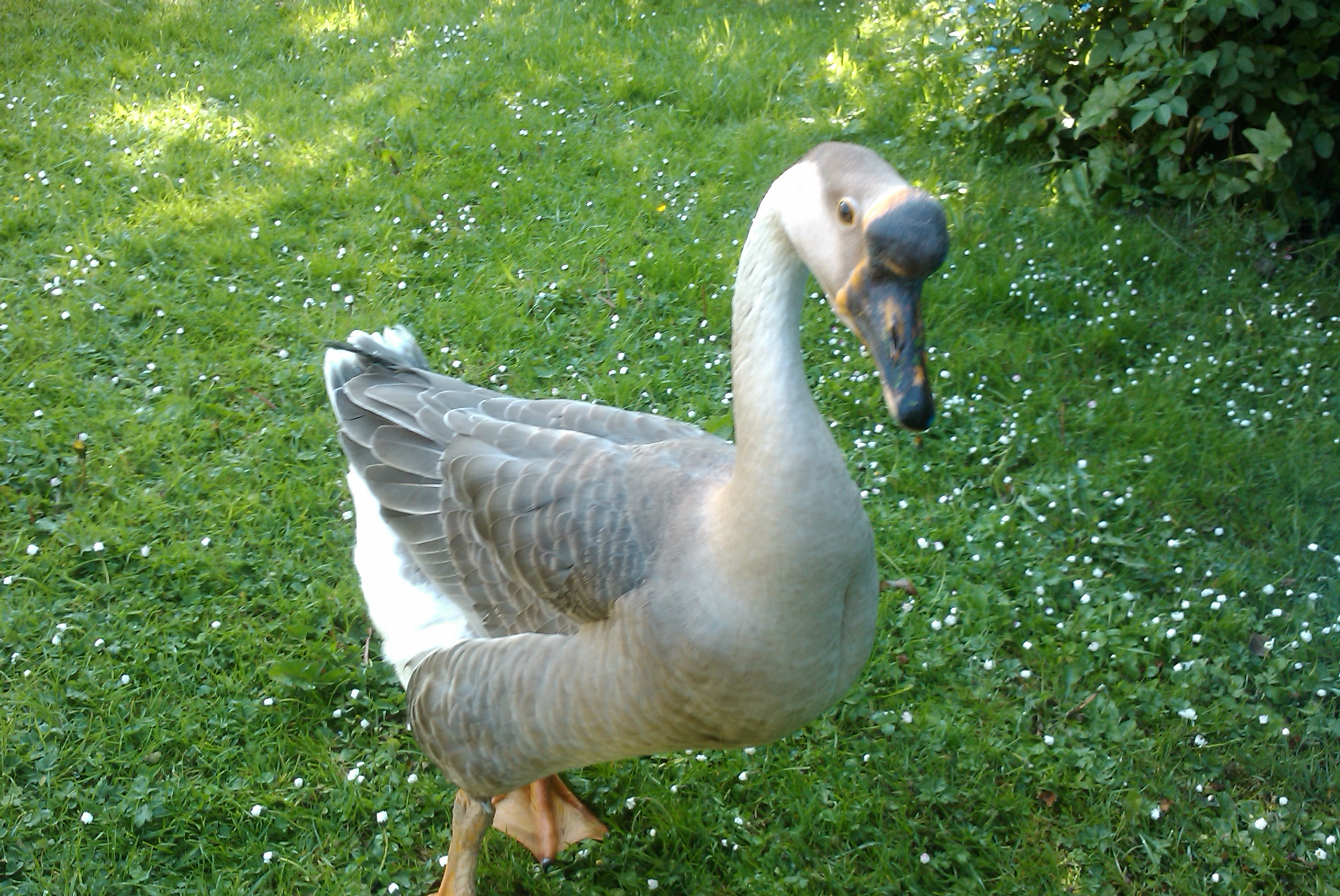 Anser cygnoides domestica